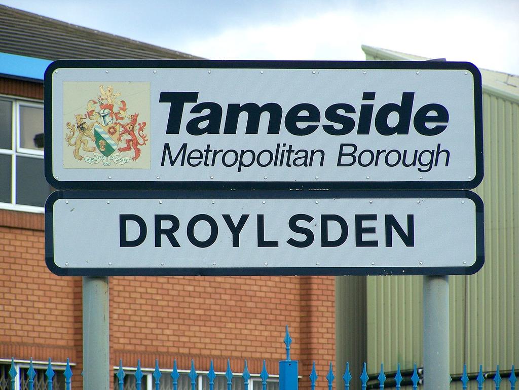 Welcome sign at Droylsden, in Tameside, Greater Manchester, England.